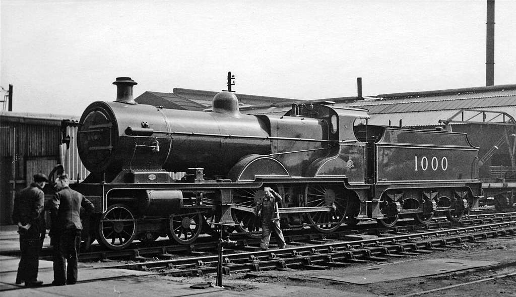 Preserved Midland Railway 4-4-0 Compound No. 1000 at Derby Works. Restored in all its original crimson-red splendour, ex-Midland 7'0" Compound 4-4-0 stands outside Derby Works. As BR No. 41000, it had been withdrawn back in October 1951 but preserved.